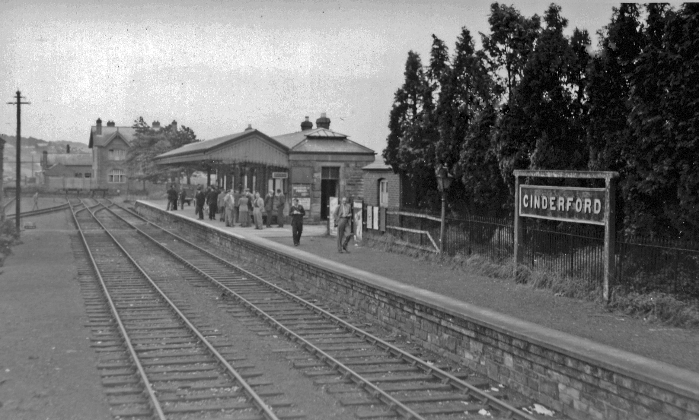 Cinderford station, 1950View southward towards the buffer-stops of the terminus of the ex-GWR Forest of Dean branch from Newnham via Bullo Pill Junction, closed to passengers 3/11/58, to goods 1/8/67; until 8/7/29 there had also been trains from Drybrook Road on the Severn& Wye Joint line from Lydbrook Junction.